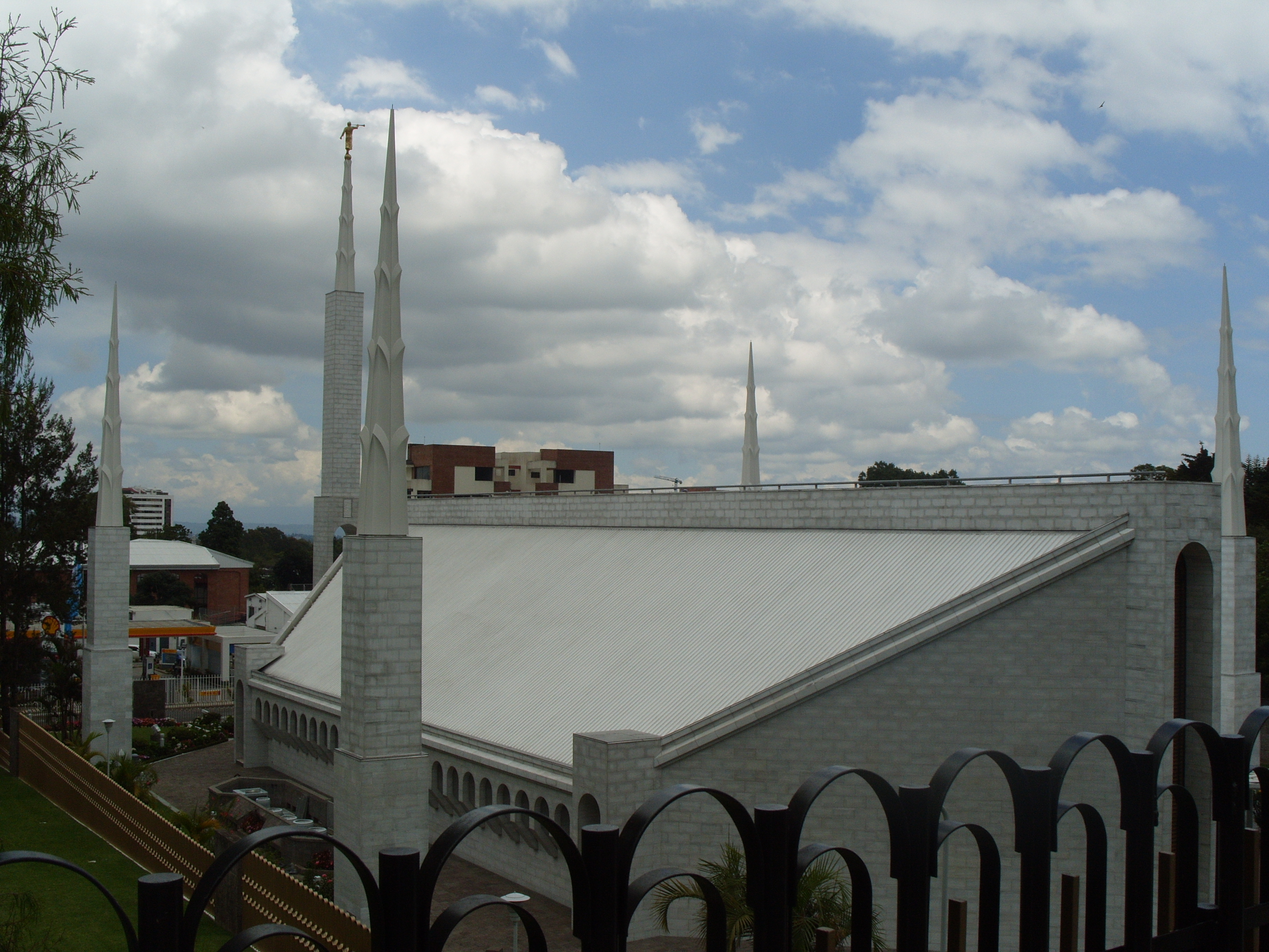 Guatemala City Guatemala Temple (rear view)